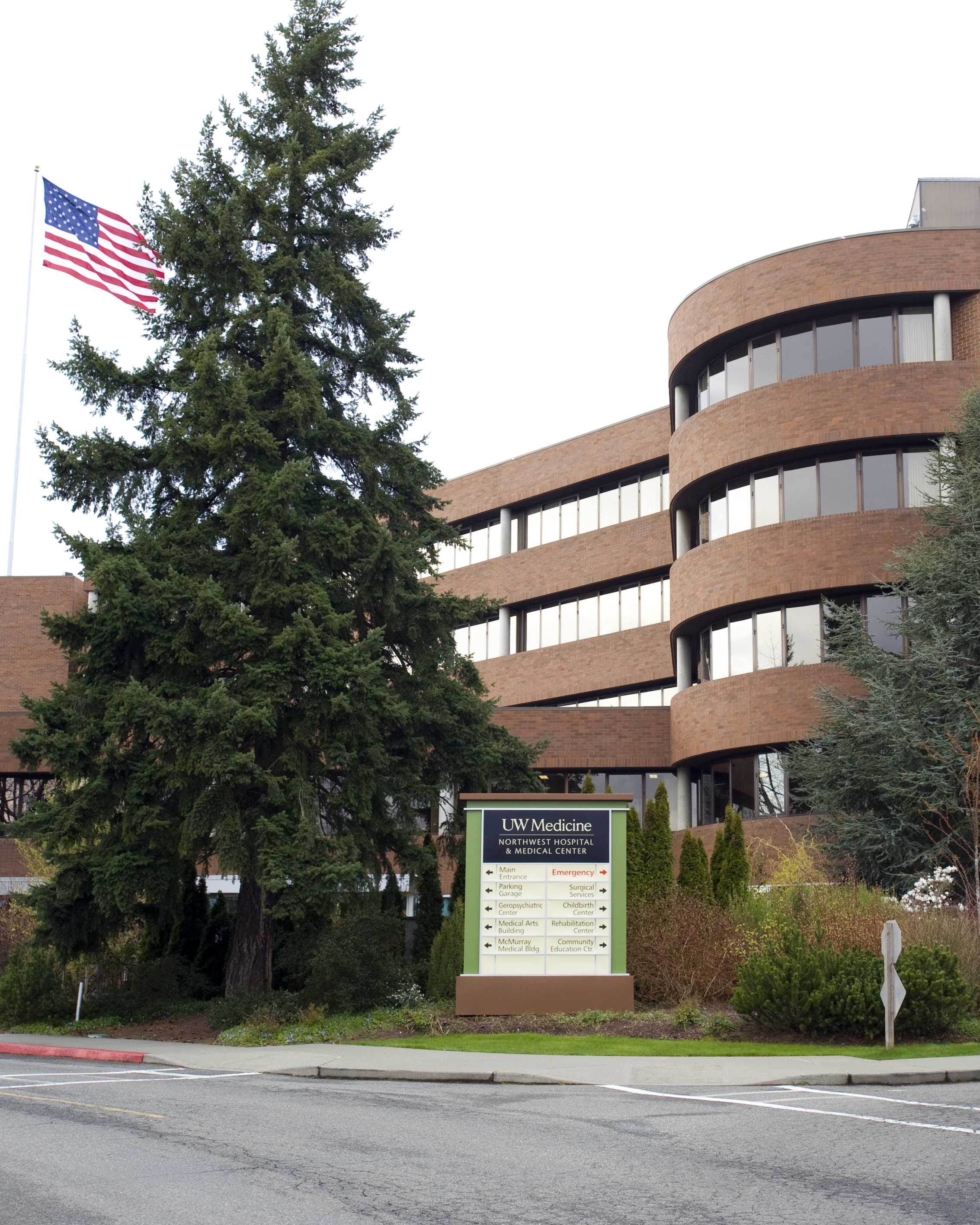 Photograph of the exterior of Northwest Hospital in Seattle.